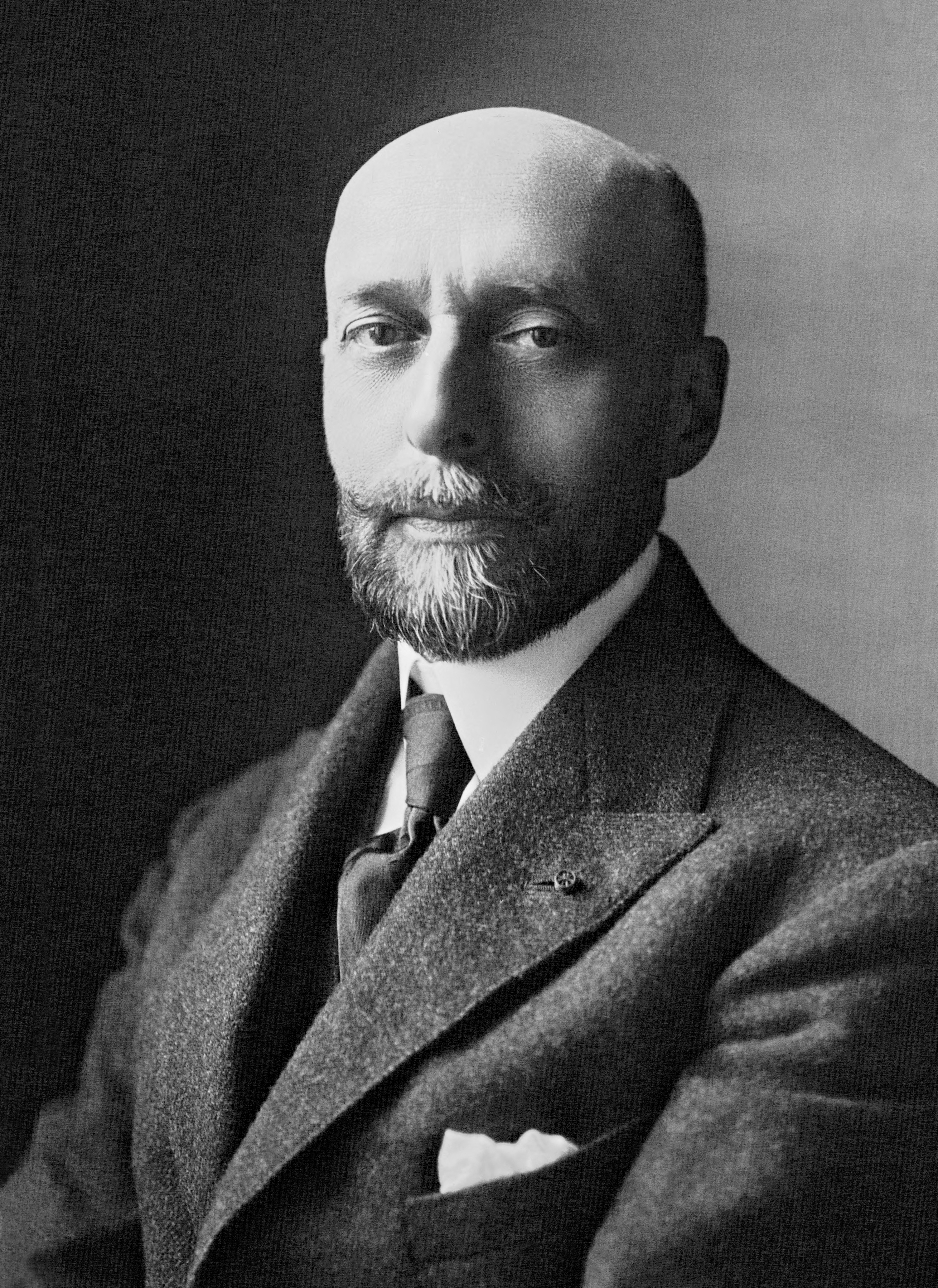 René Boylesve (1867-1928), French writer and a member of Académie française, in 1921. Glass negative, restored and cropped print.)